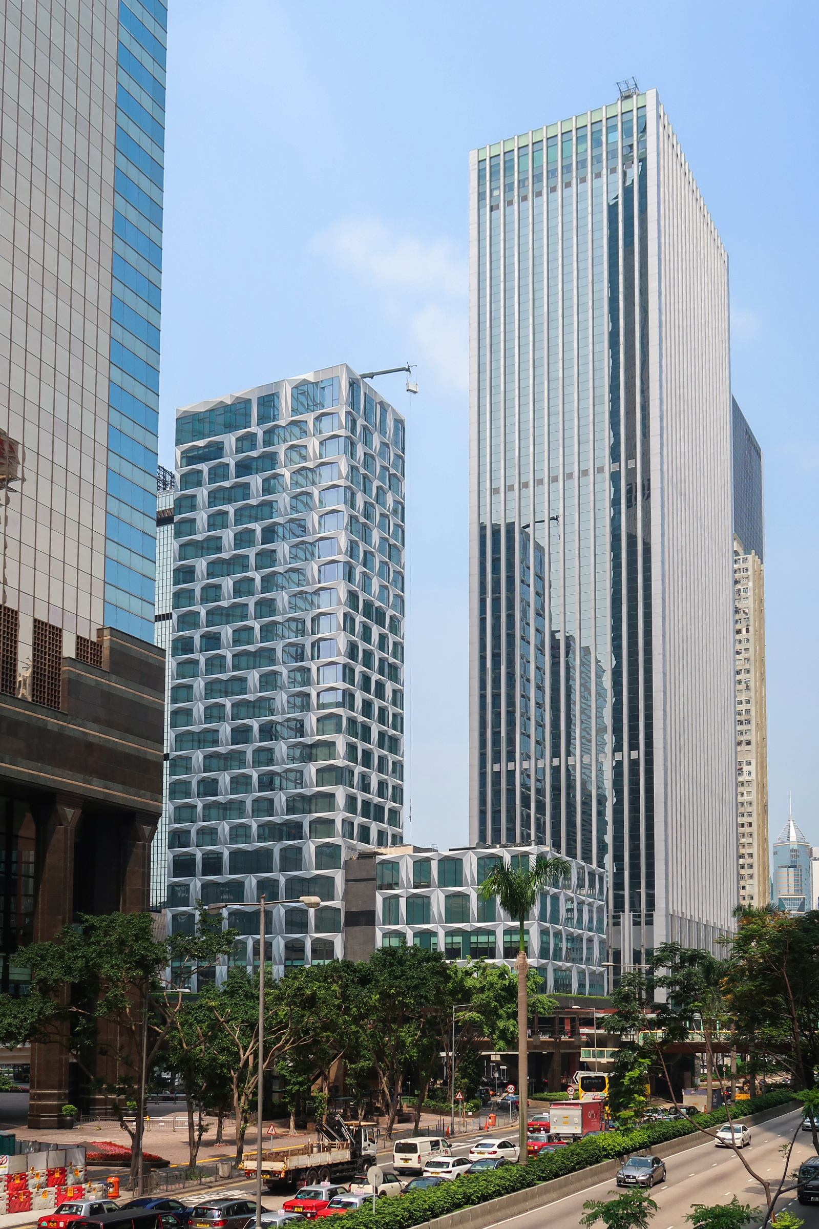 China Resources Building